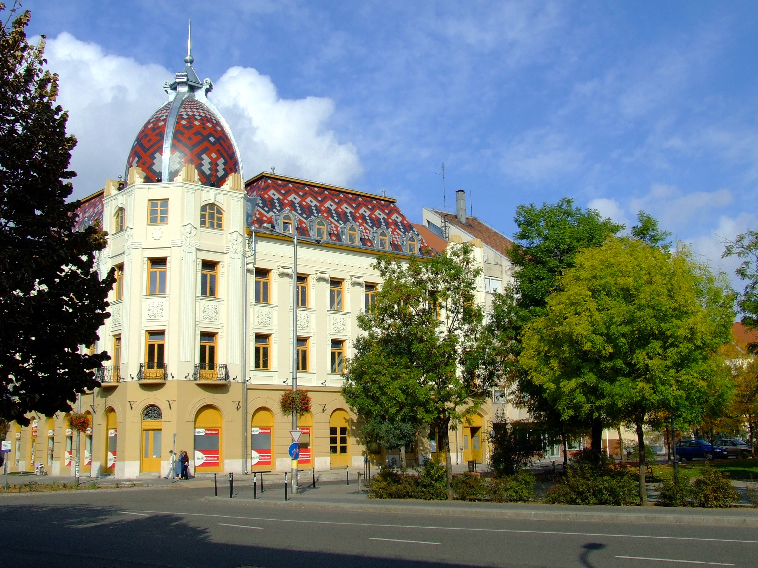 Post Palace. - Szabadság Square, Nagykőrös, Pest County, Hungary